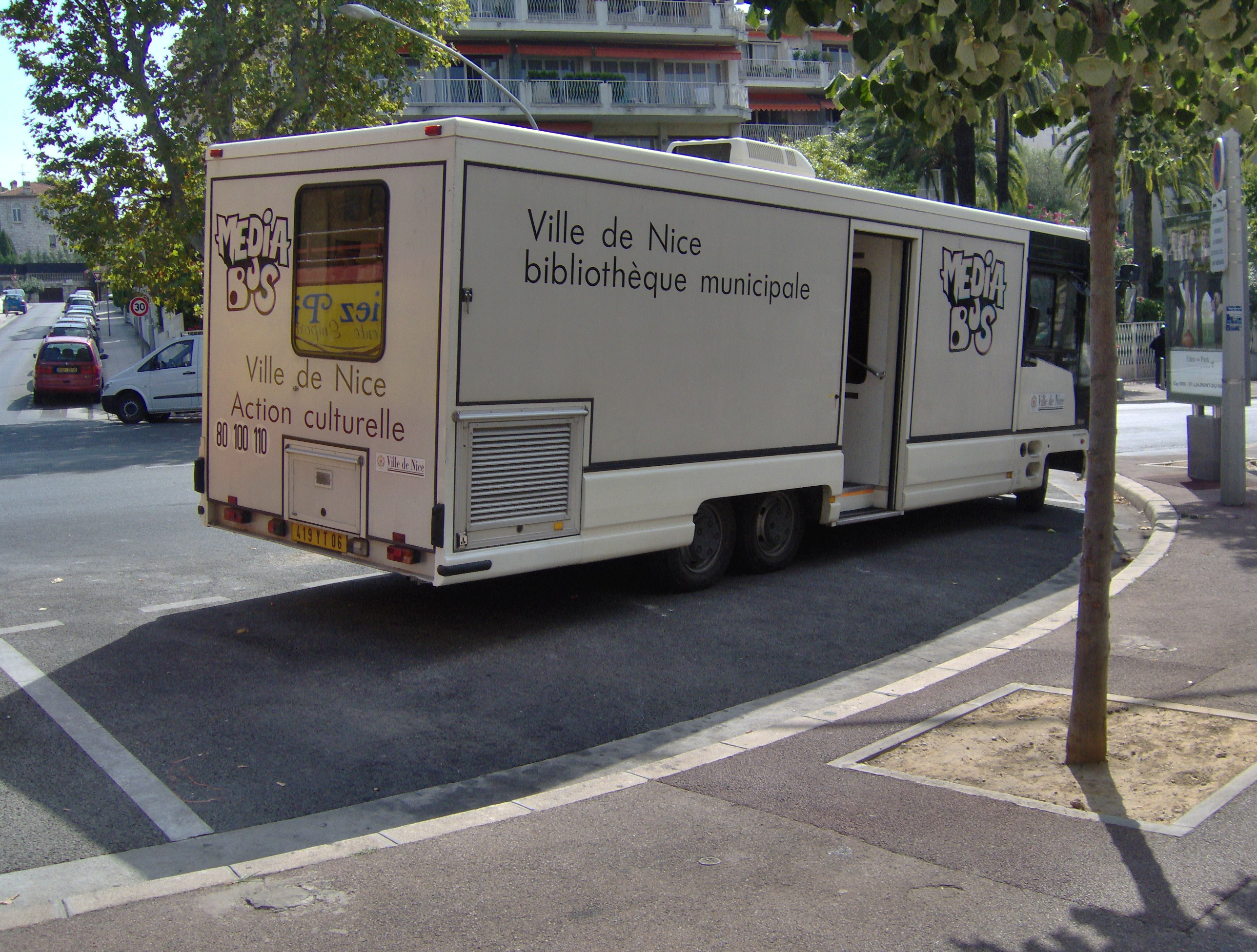 Mobile library in Nice, France